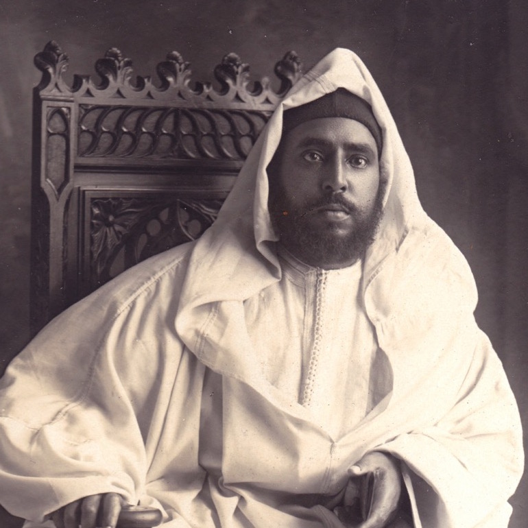 A photo of the Moroccan sultan Abdelhafid